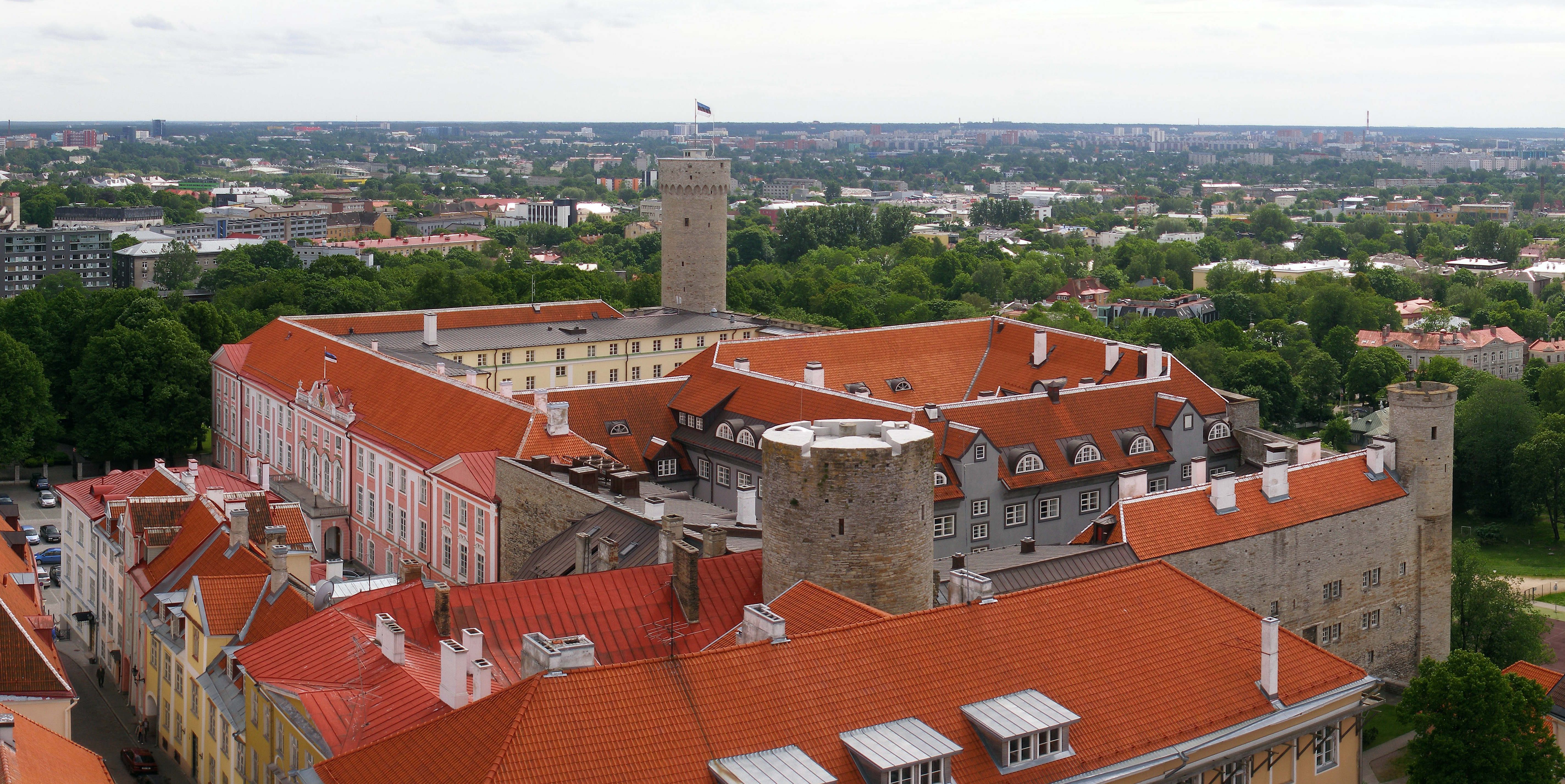 Toompea Castle, Tallinn. View from northeast.